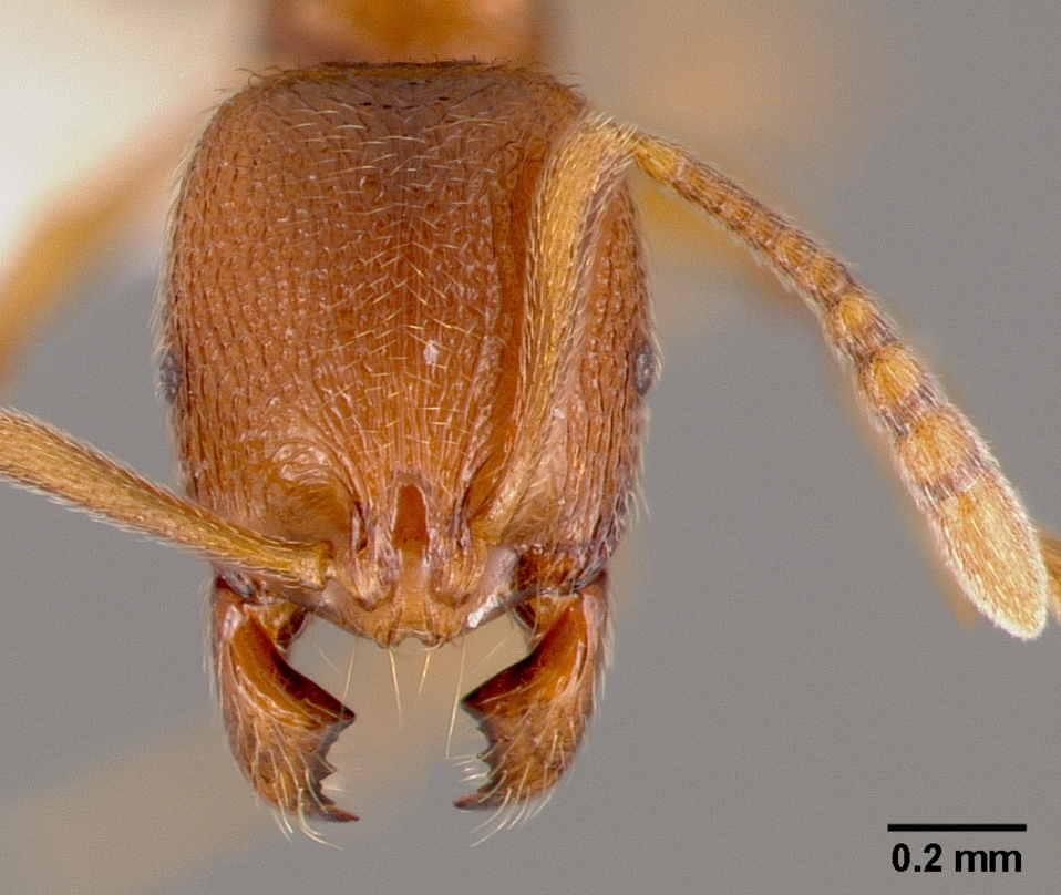 Head view of ant Stenamma diecki specimen casent0005811.